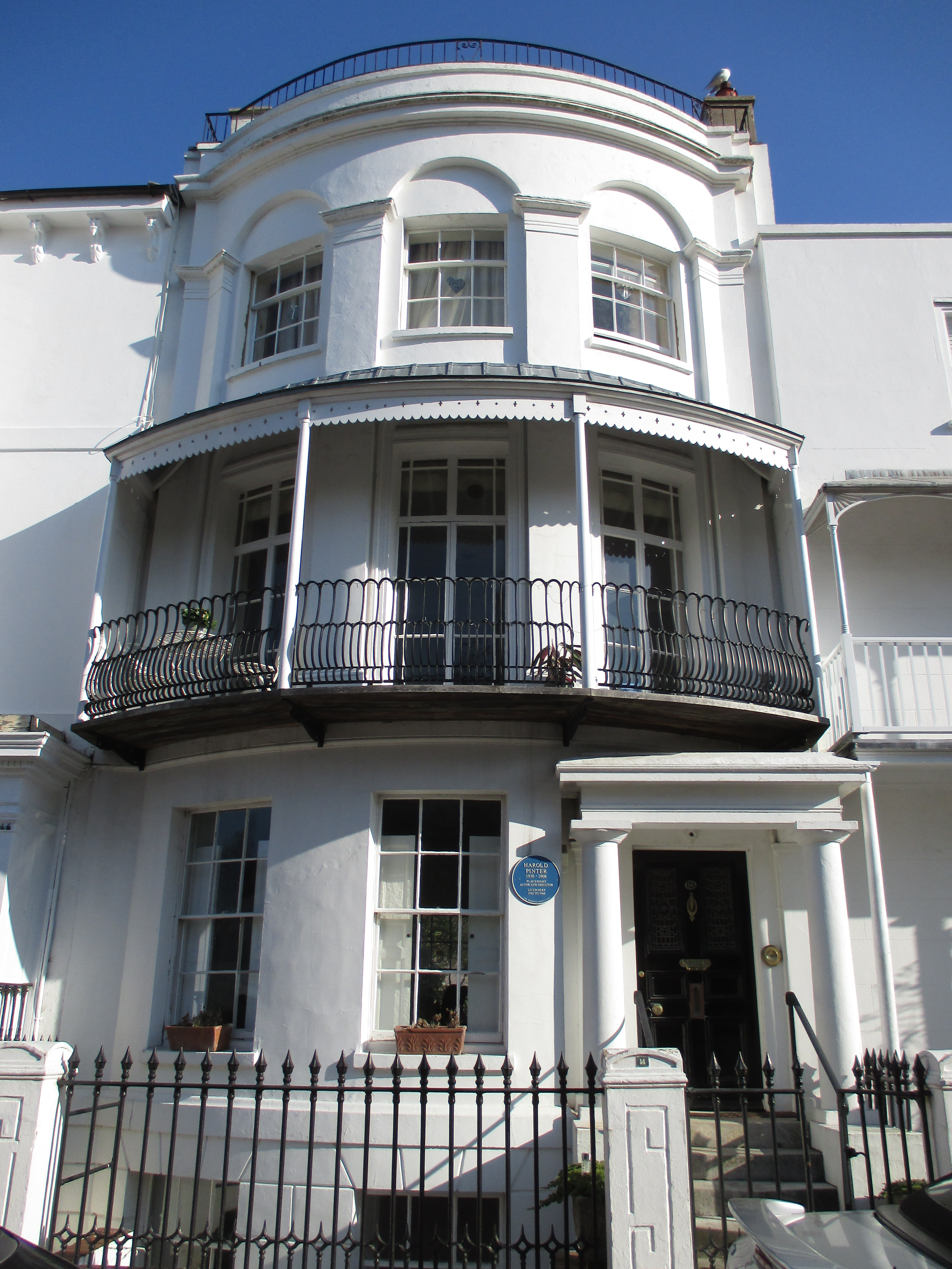 14 Ambrose Place, Worthing, West Sussex, home of Harold Pinter from 1962 to 1964.